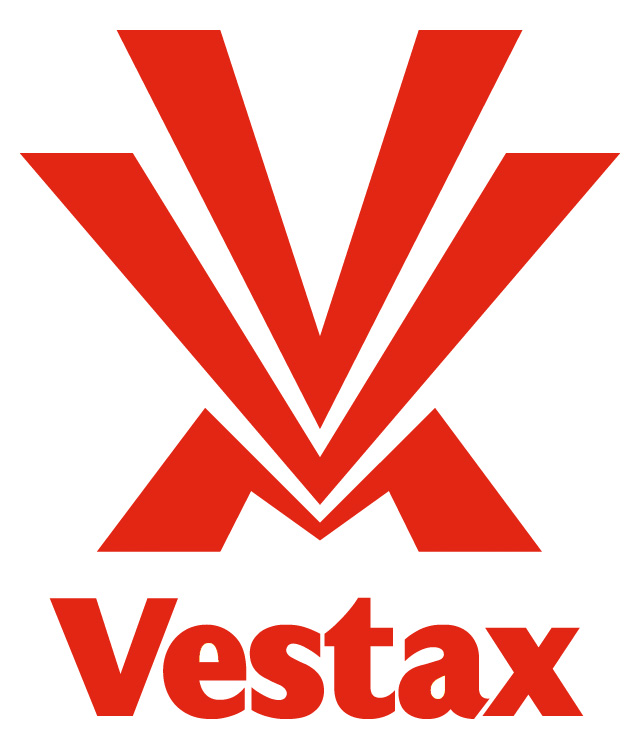 Vestax Corporation logo